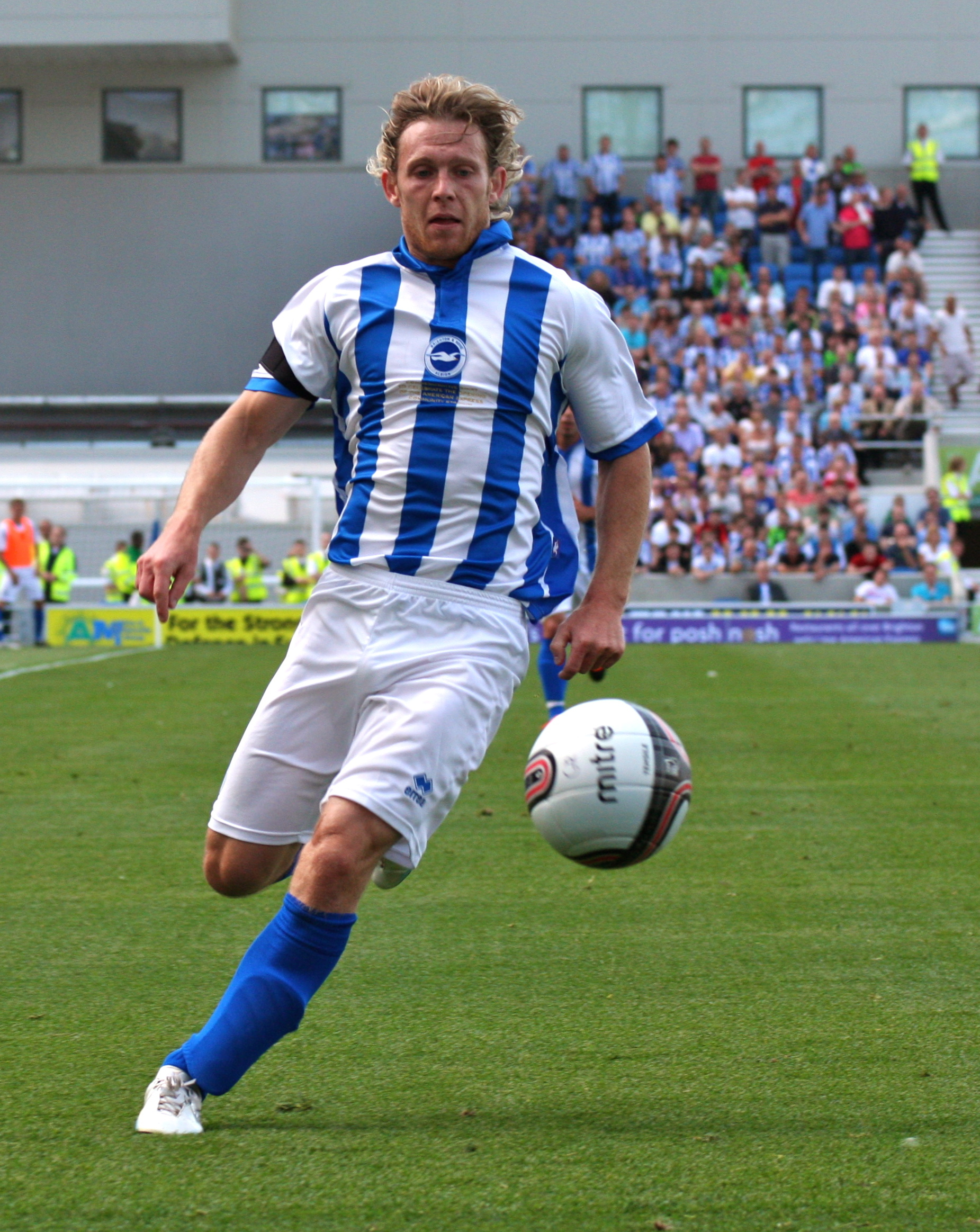 Craig Mackail-Smith - Amex Opening